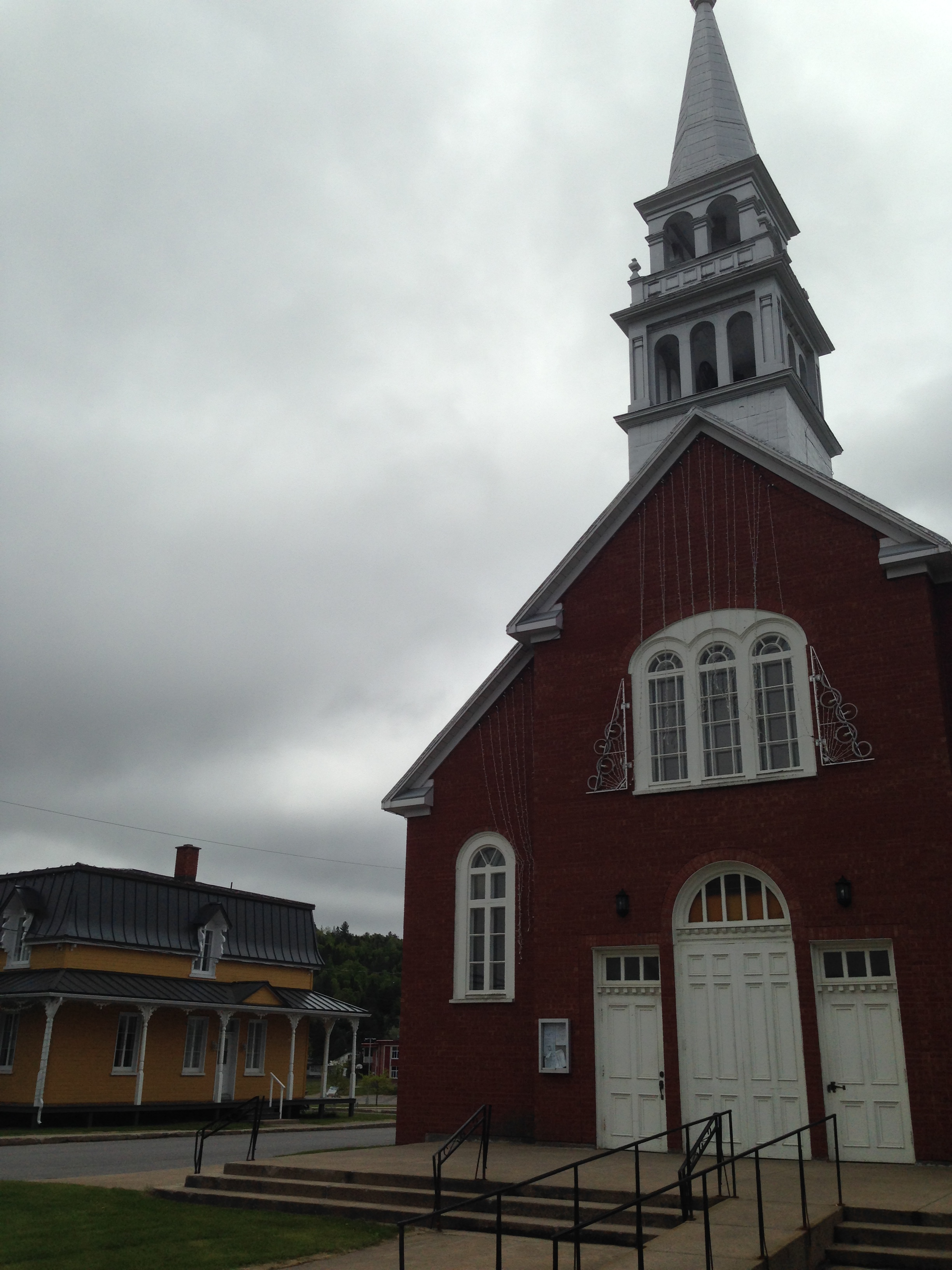 View of the church and the old presbytary of Saint-Côme, Lanaudière, Québec, Canada